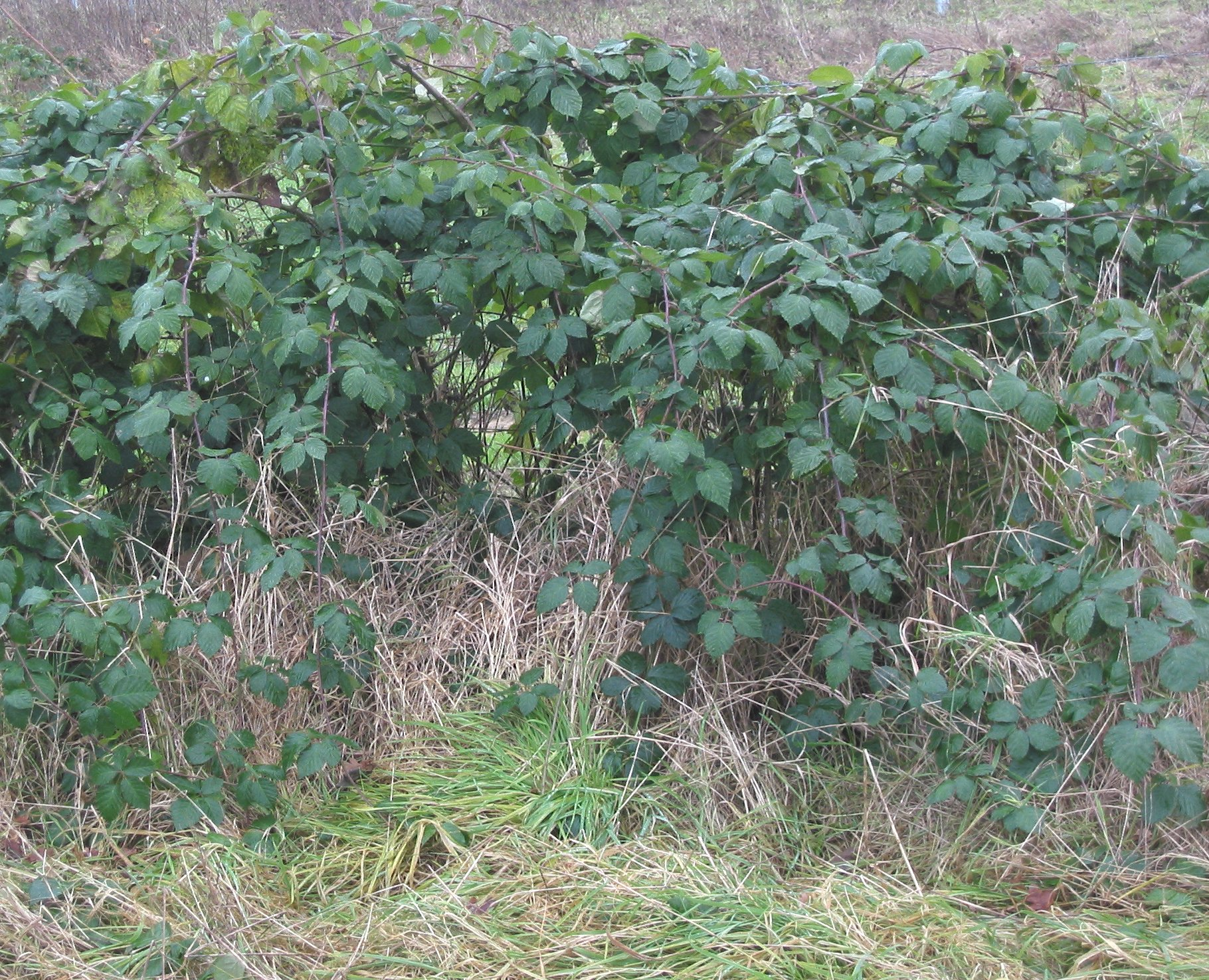 (Gewone braam) Rubus fruticosus